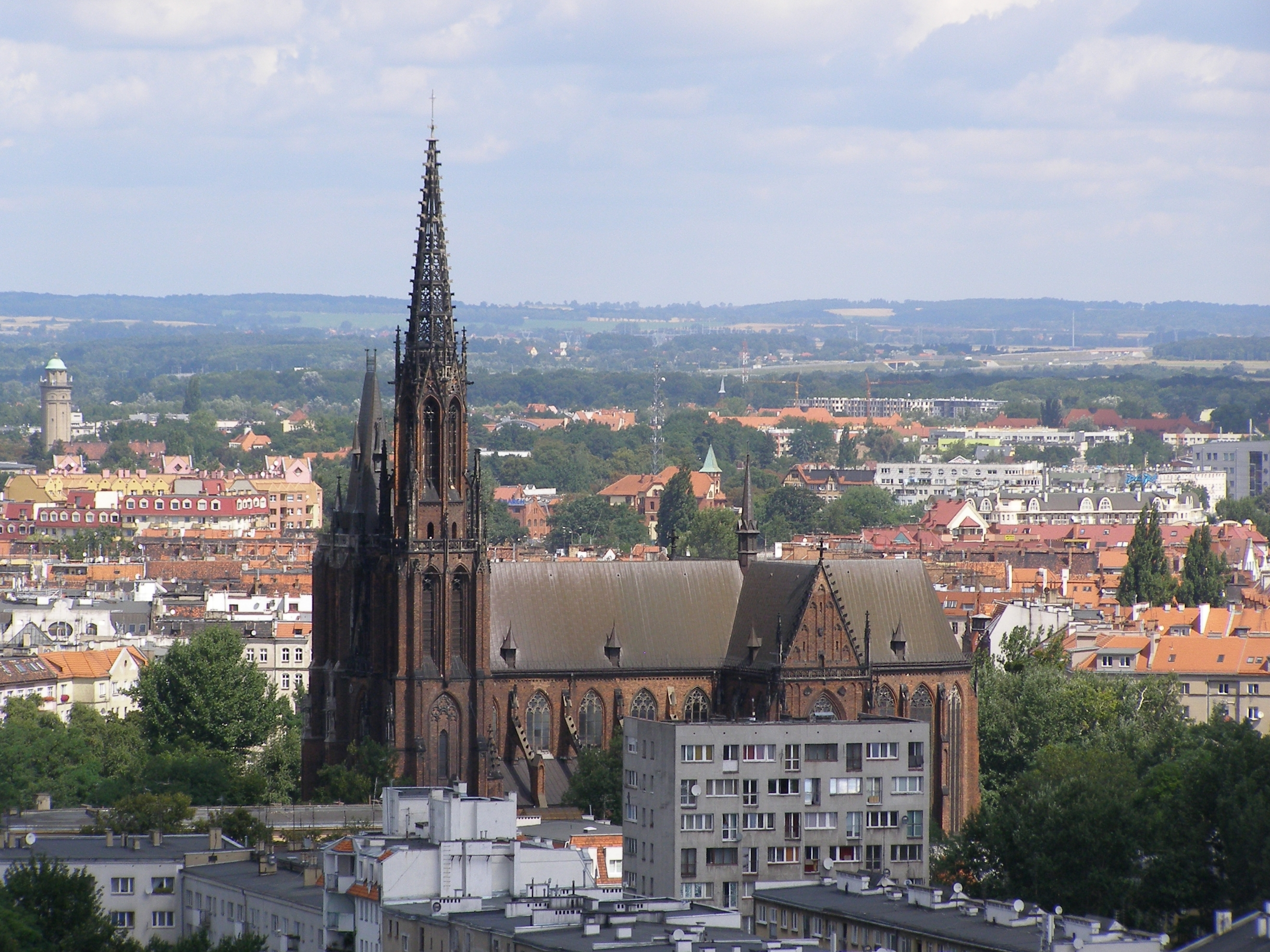 Wrocław - St. Michael Archangel church, view from the cathedral tower